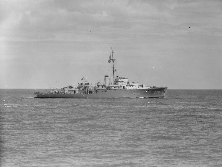 British sloop HMS LEITH underway at sea